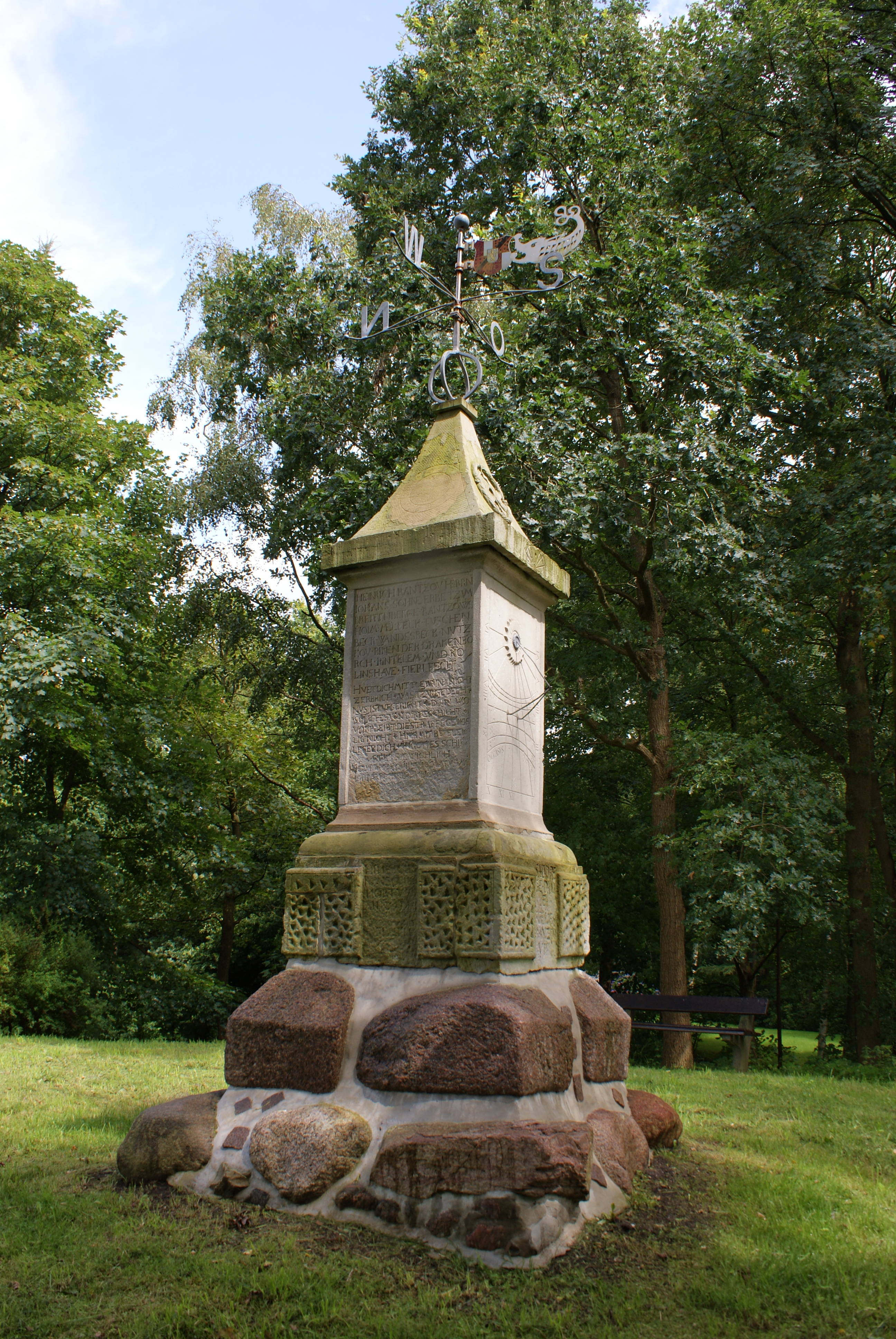 The so-called Temple of Nordoe, a Monument of the 16th century